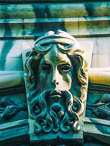 burst in building, Azerbaijan